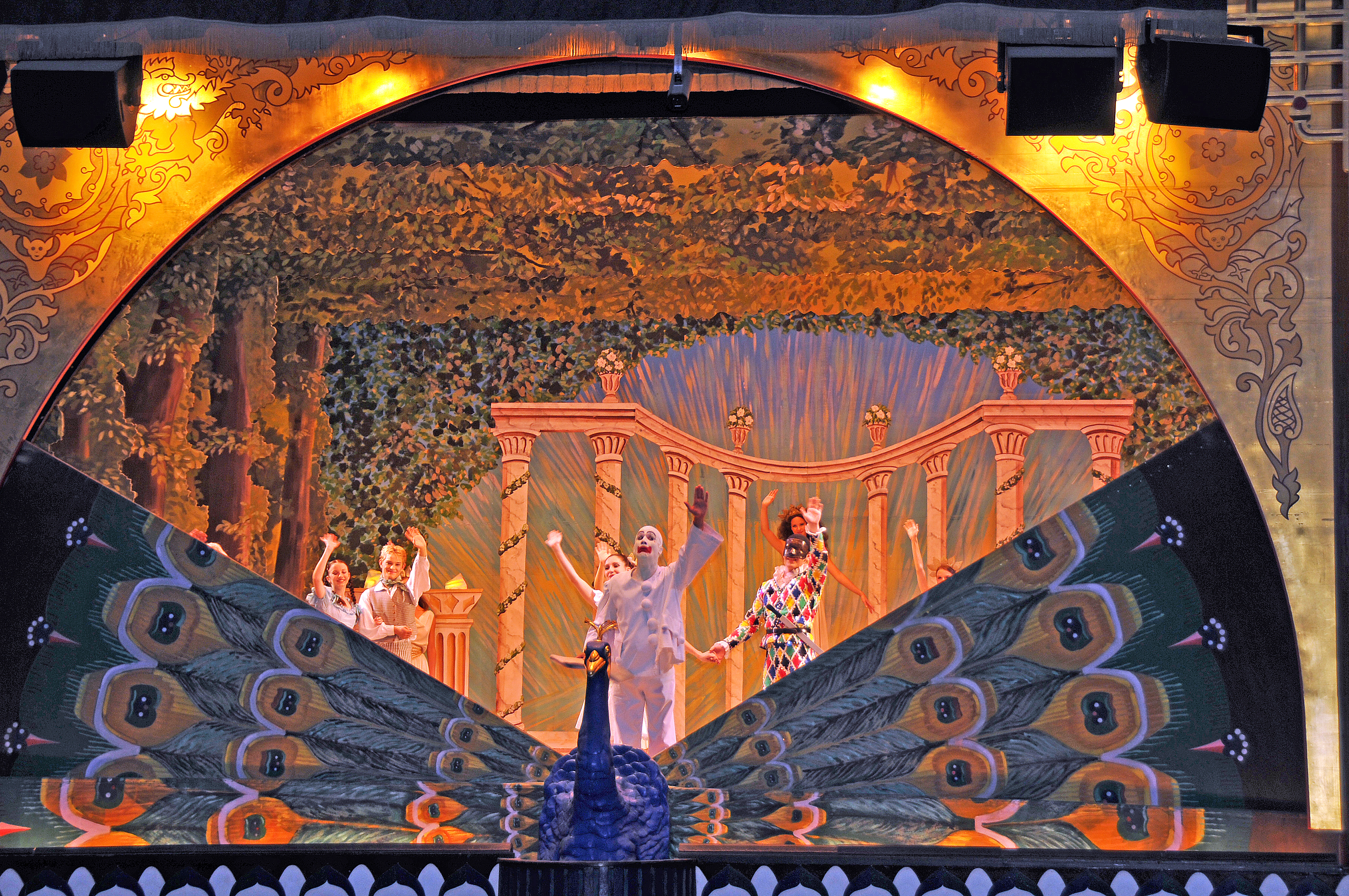 Pantomimeteatret at Tivoli Gardens in Copenhagen, Denmark. The Peacock Curtain in the foreground.